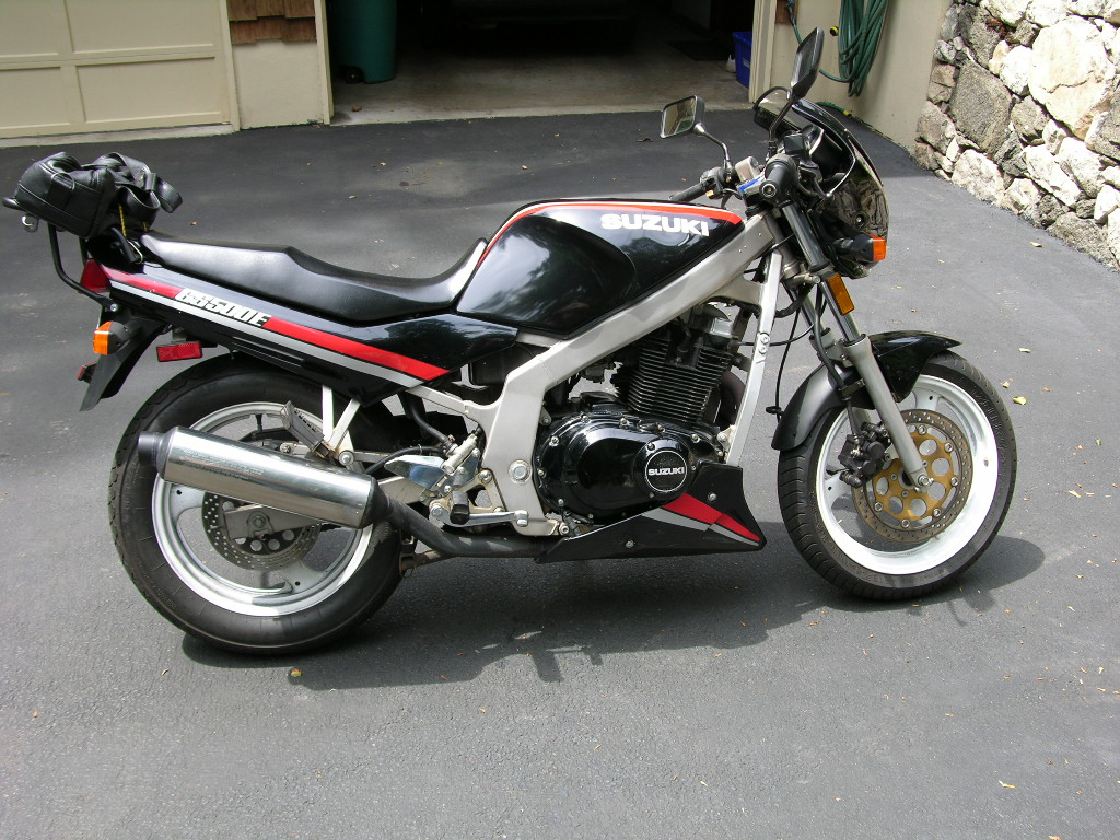 1989 Suzuki GS500E with rare factory chin spoiler